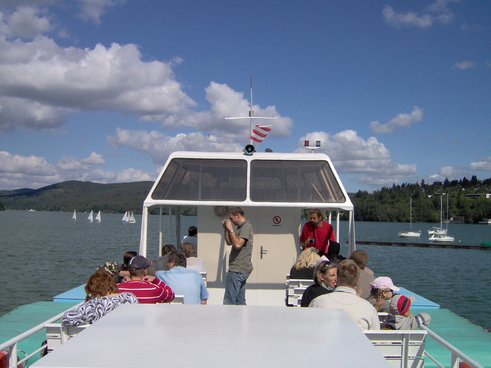 Ship Veveří on the Brno dam